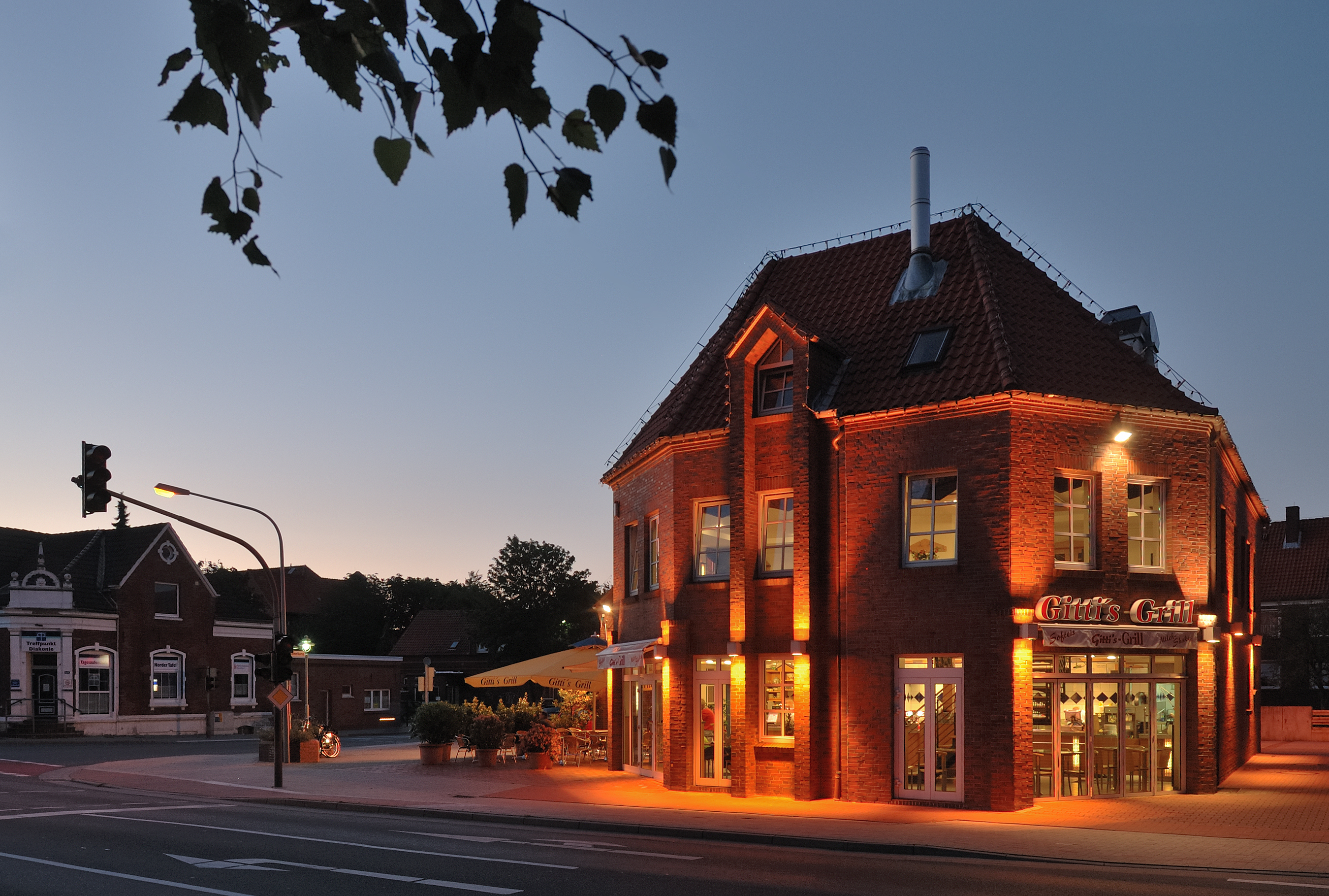 Snack bar "Gitti's Grill", Norden, at dusk.